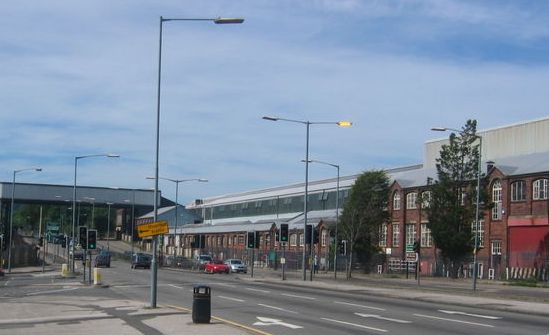 Crop of File:Longbridge.JPG